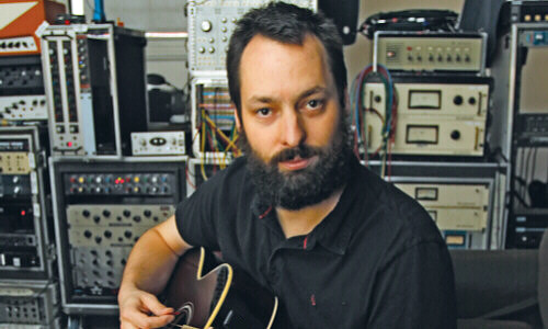 an image of Toronto, Canada based producer / writer Gavin Brown.